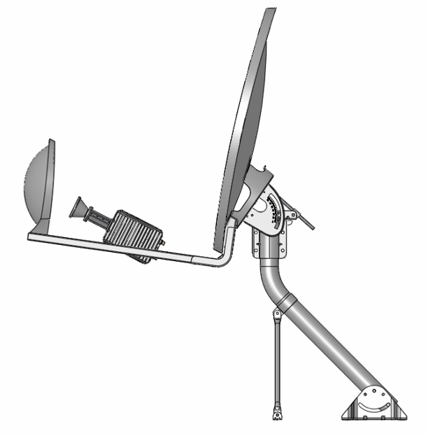 Tooway dual-band direct broadcast satellite antenna drawing. This type is called an offset Gregorian design. The radio waves from the satellite reflect off the large dish (right), which is an asymmetrical segment of a paraboloid, and focuses them on the smaller concave elliptical reflector (left). This secondary reflector focuses them on the feed horn on the arm, where they are received, converted to an electrical signal, and processed in the LNB behind the horn. The purpose of this offset design is to move the concave secondary reflector out of the path of the beam.